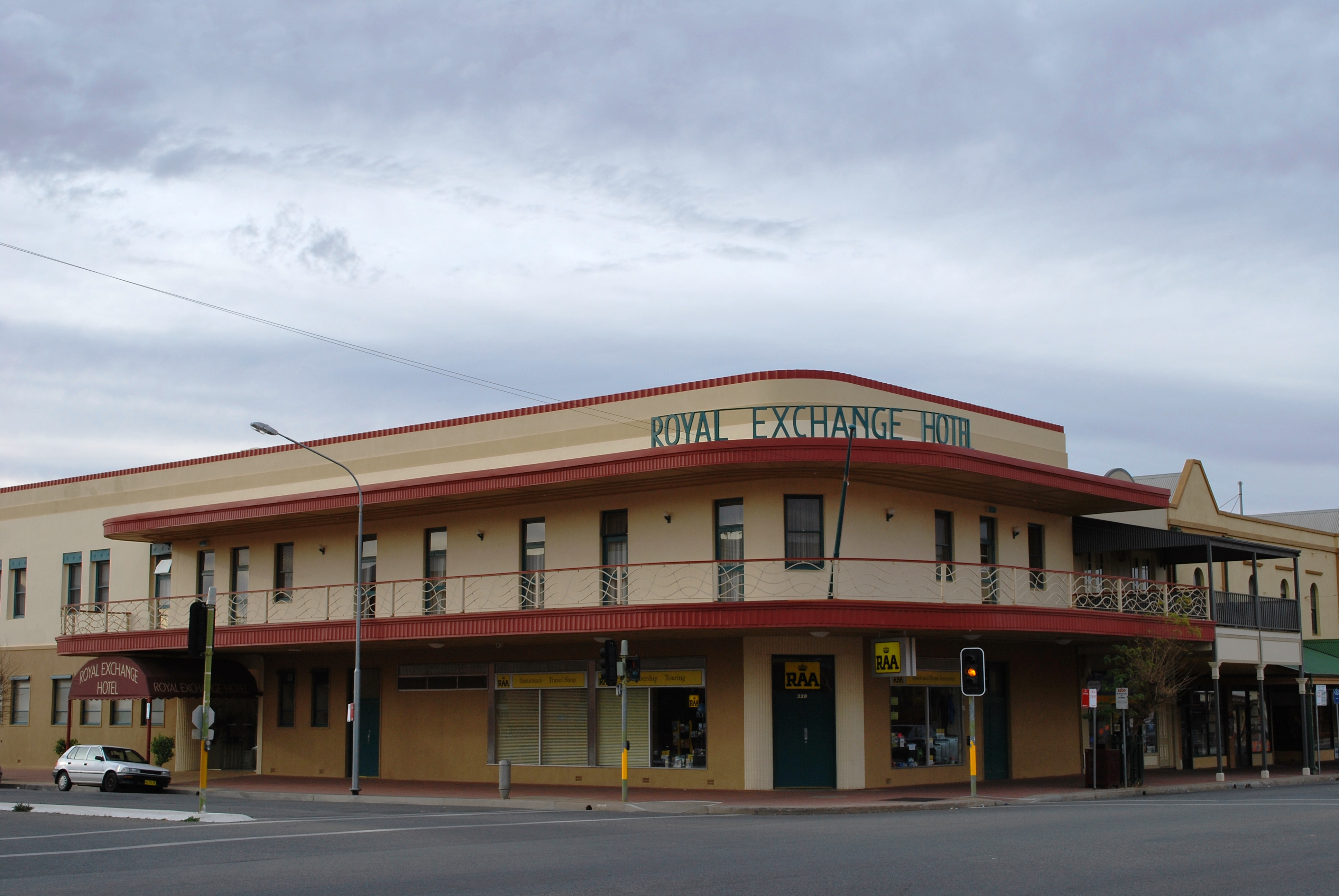 Royal Exchange Hotel at Broken Hill, New South Wales